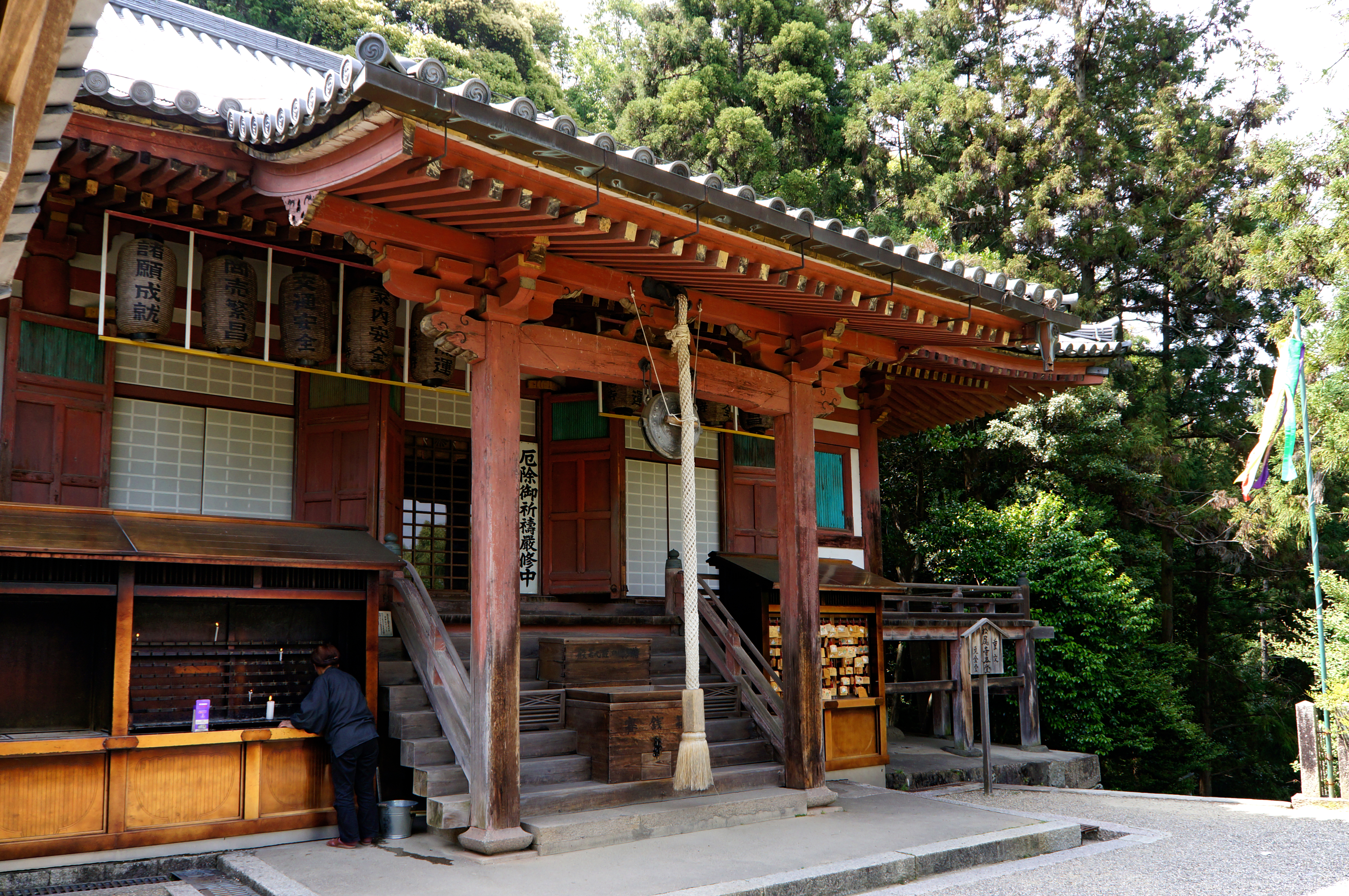 Matsuo-dera in Yamatokoriyama, Nara prefecture, Japan.